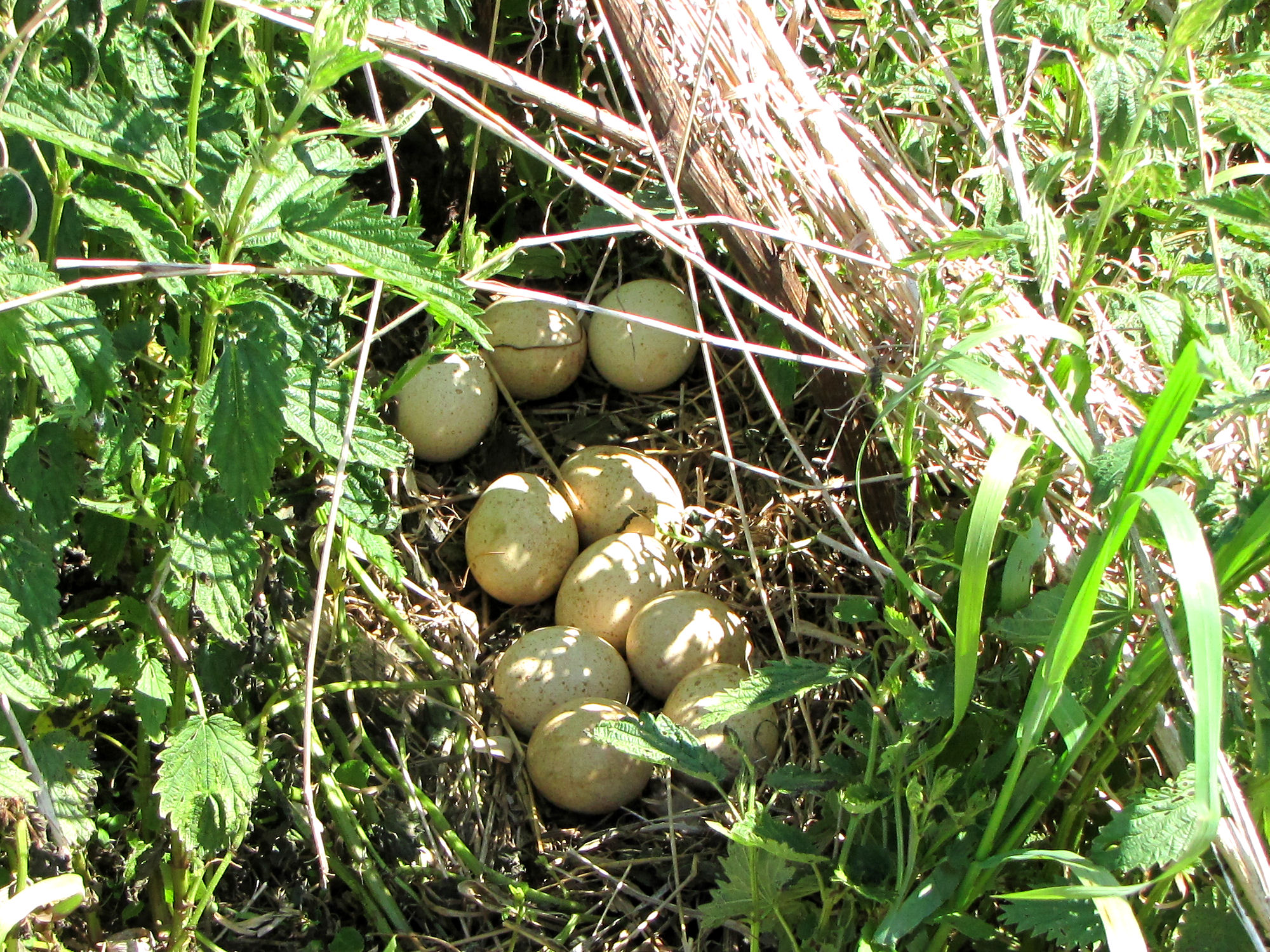 Wild Turkey (Meleagris gallopavo), nest and 10 eggs, Ottawa, Ontario, Canada